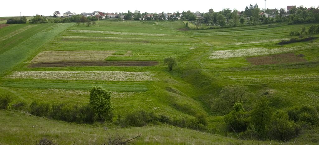 Zombor Hole (one sinkhole of the Baradla Cave)